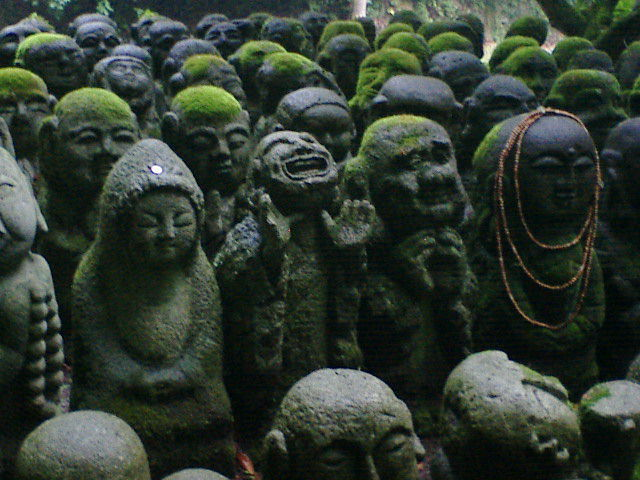 Lots of statues in Kyoto